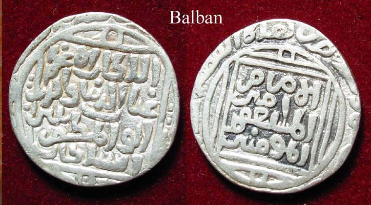 A silver Tanka of Balban from my personal collection.On the Obverse, the name is given in full, Giyazud al dunya wa al din abu al muzaffir Balban